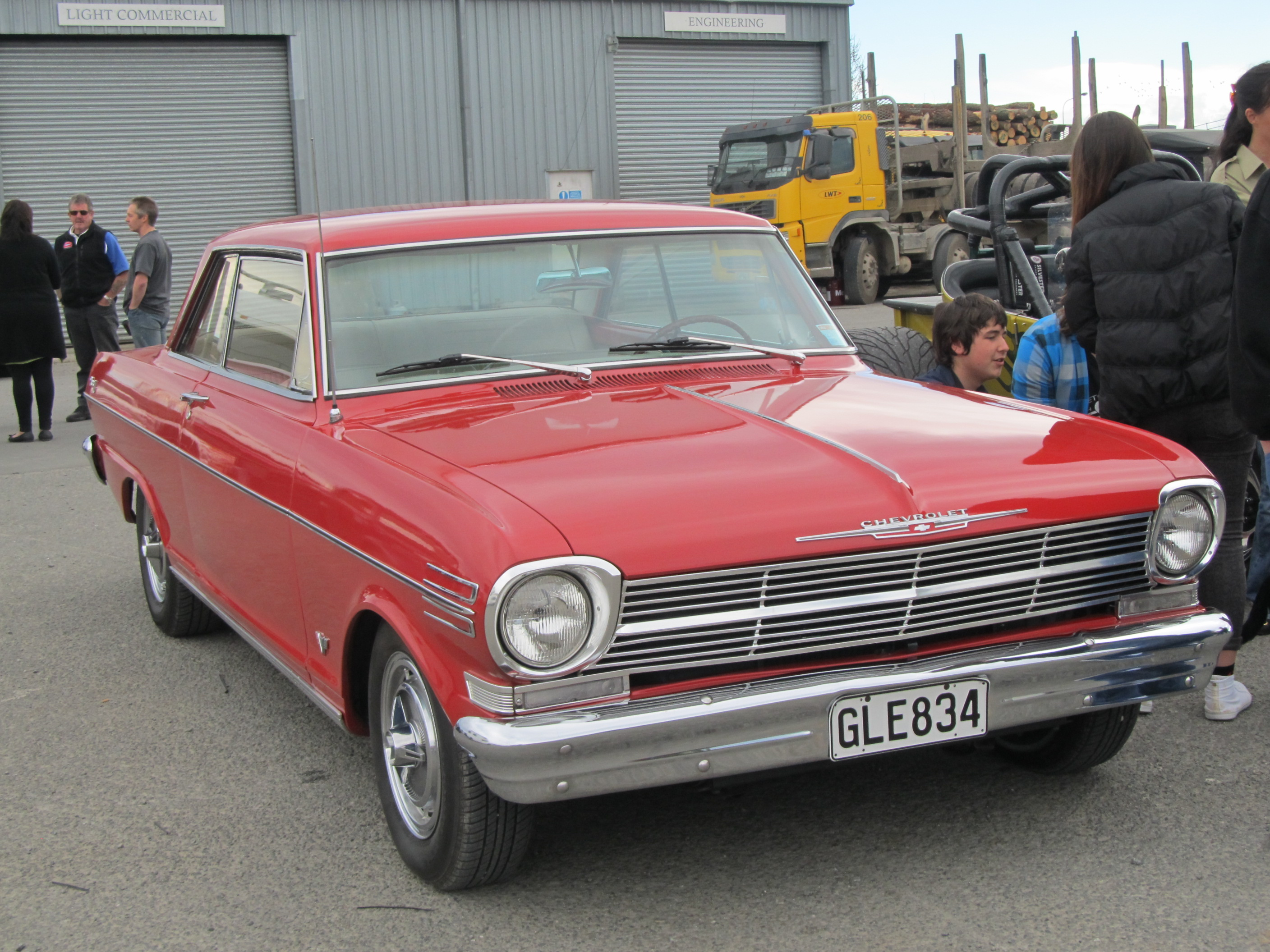 Any American car that isn't a Mustang, Camaro or Corvette immediately stands out to me, and so I was pleased to see this highly original Nova at a Petrolheads car meet a few months ago! Apparently it's only been in the country since July... File:1962-Chev-Nova.jpg